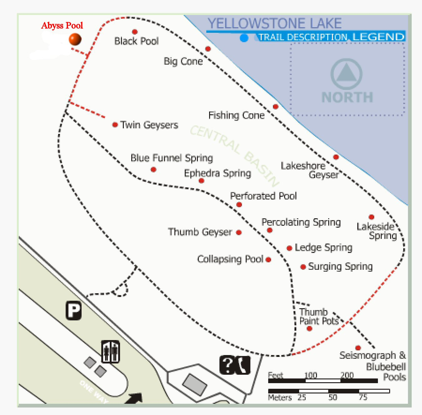 Map of West Thumb Geyser Basin, Yellowstone National Park, Wyoming with Abyss Pool annotated